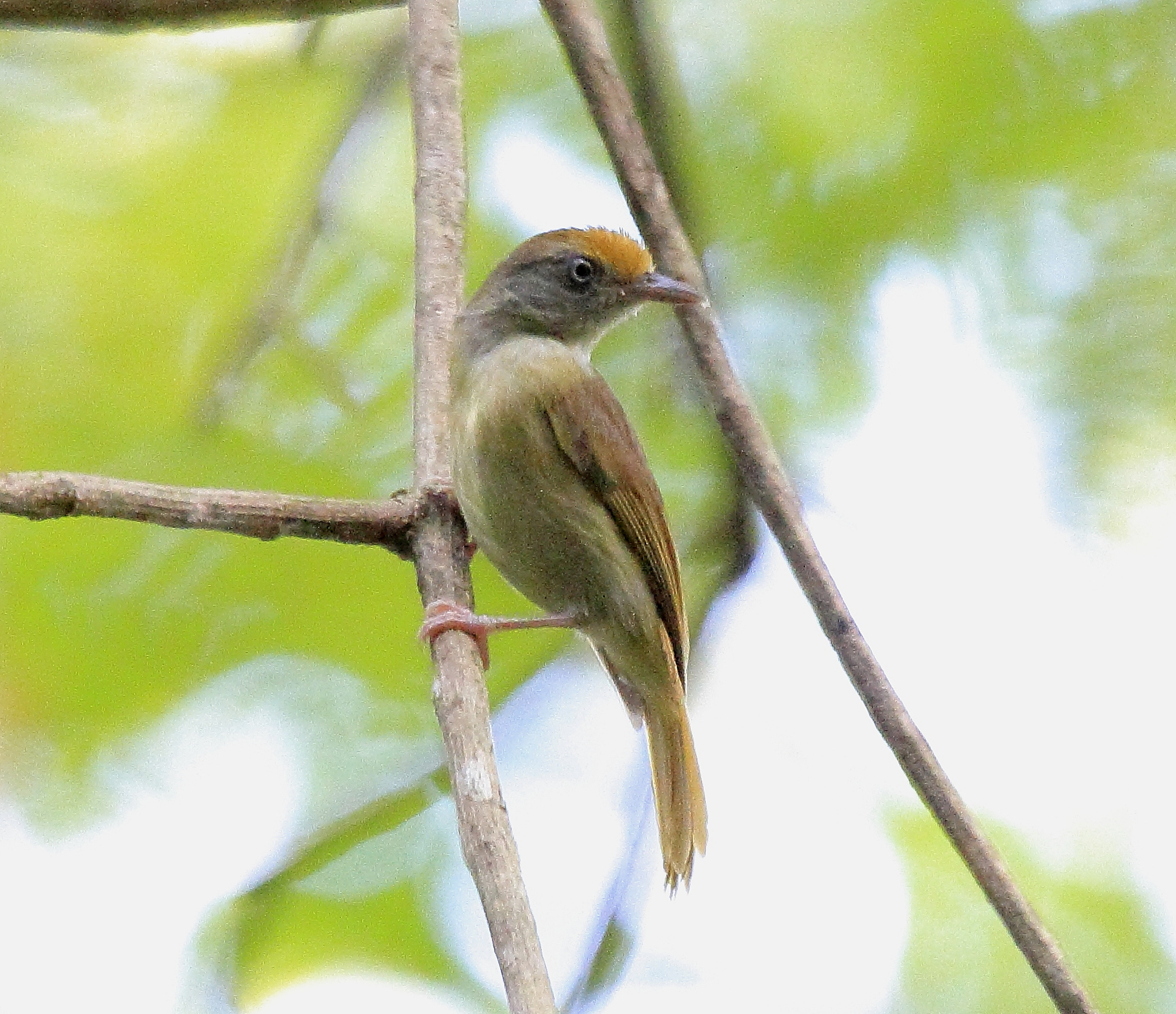 Tawny-crowned Greenlet (Hylophilus ochraceiceps)